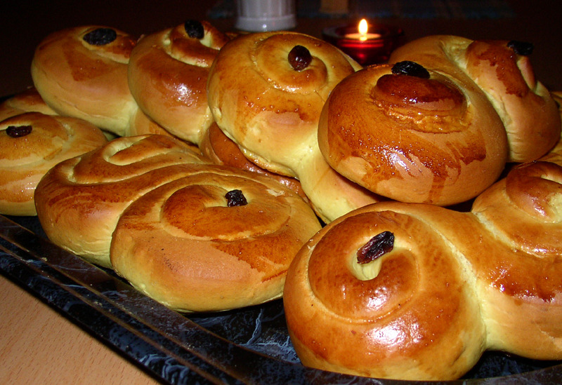 Wow, its a crescendo (well they are silent, the buns) of having saffronbuns from late november to Christmas in Sweden. We´ll have so much of them so its all ok to be without them the rest of the year!